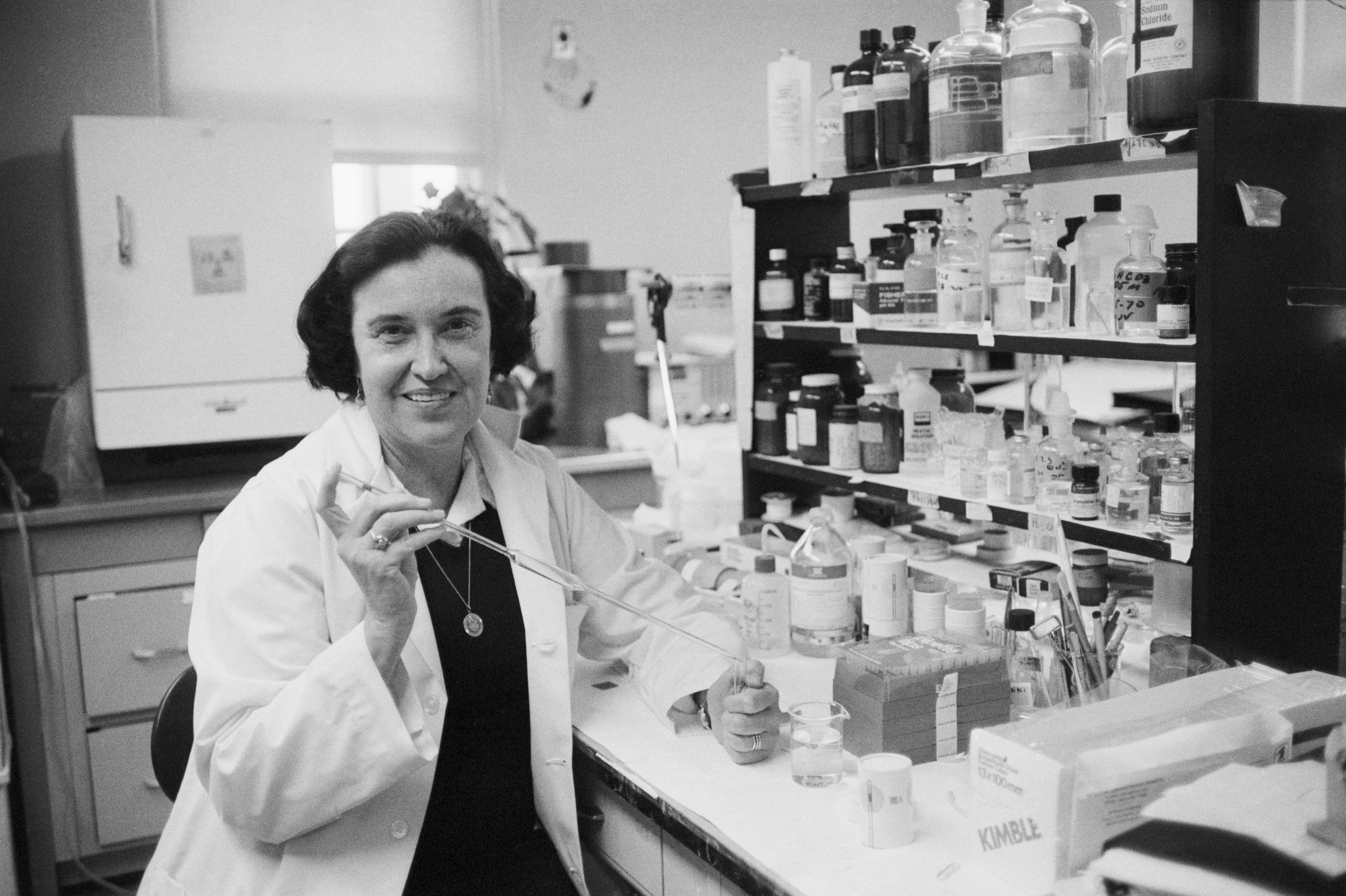 Original description: Dr. Rosalyn Yalow at her Bronx Veterans Administration Hospital, October 13, 1977, after learning she was one of three American doctors awarded the Nobel Prize for Physiology or Medicine that year.